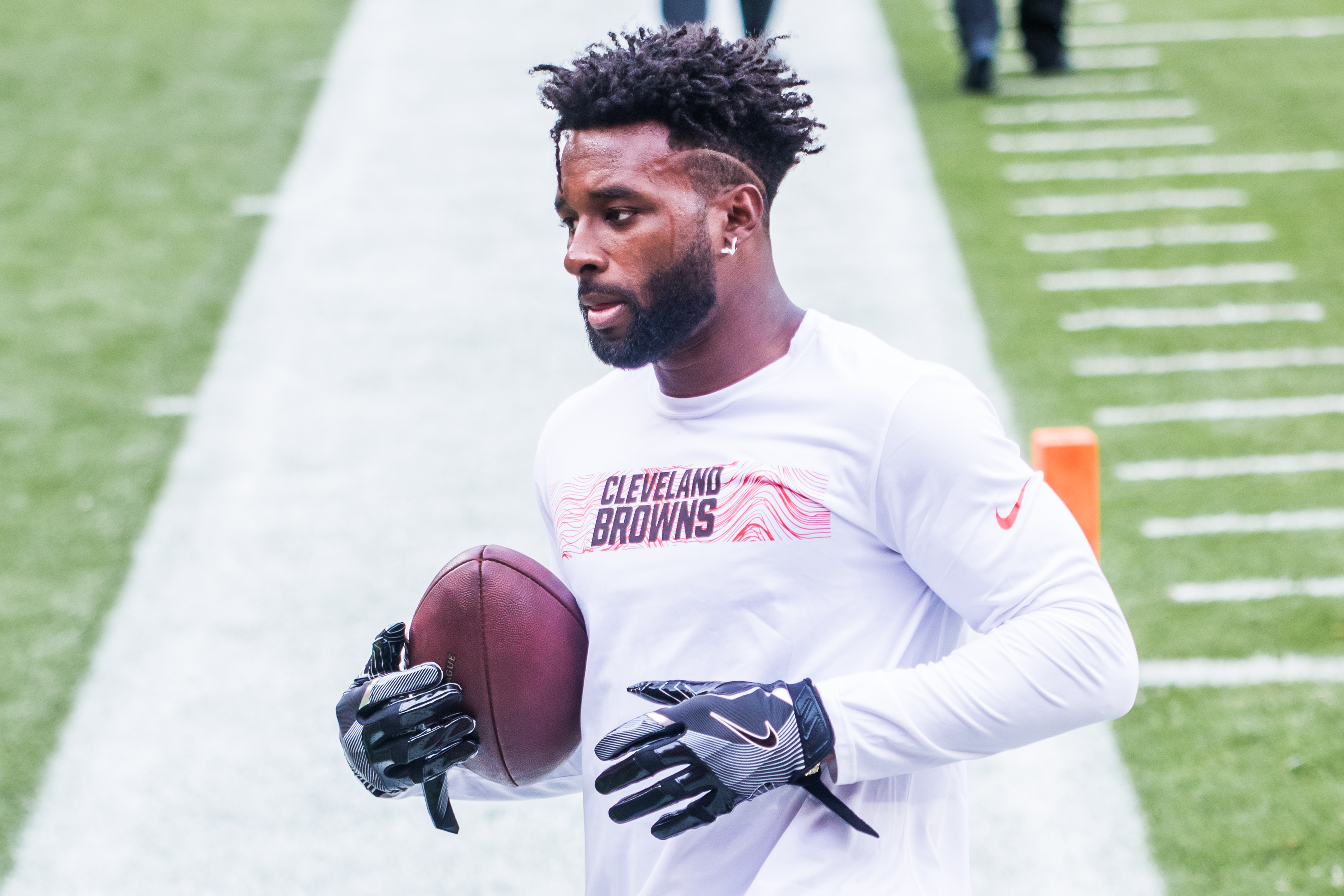 Jarvis Landry